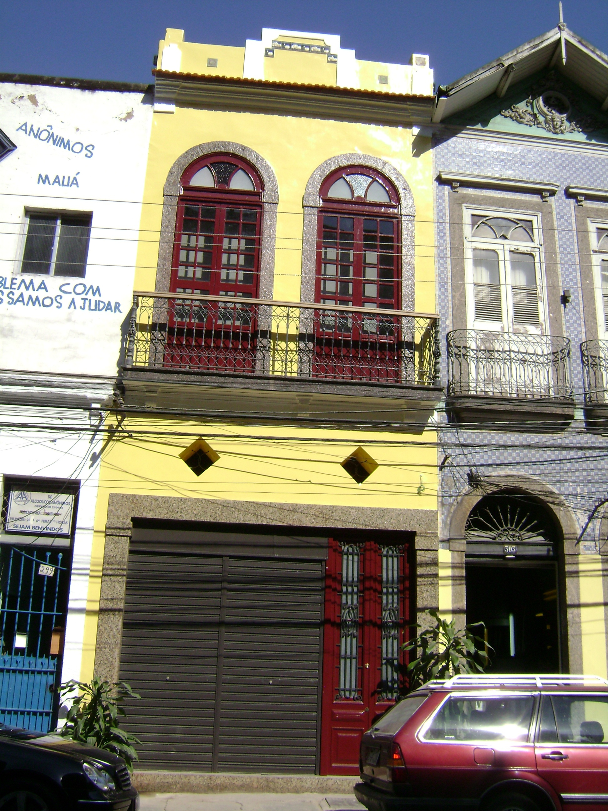 A Picture of an old colonial building in the Rio de Janeiro Neighbourhood of GAMBOA, in Sacadura Cabral Street.